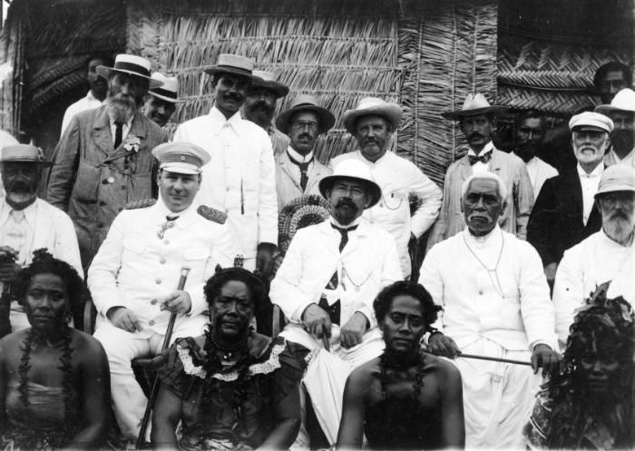 Group including Wilhelm Heinrich Solf (German governor of Samoa), paramount chief Mata'afa Iosefo and the Honourable Charles Houghton Mills (1844-1923), a New Zealand parliamentarian. The occasion was a visit by Mills to Samoa. At the centre front among the women is the wife of Mata'afa Iosefo.